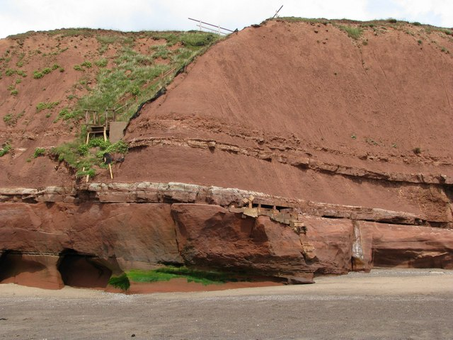 Base of the Route from the Geoneedle to the Beach Erosion has caused this route from the High Land of Orcombe to the beach to be closed.